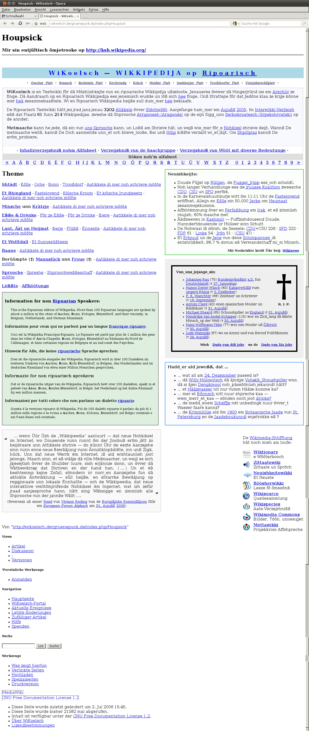 Screenshot of home page of the Wikoelsch wiki once it had become unused after its contents had been transferred to its successor, the Wikipedia of the Ripuarian languages